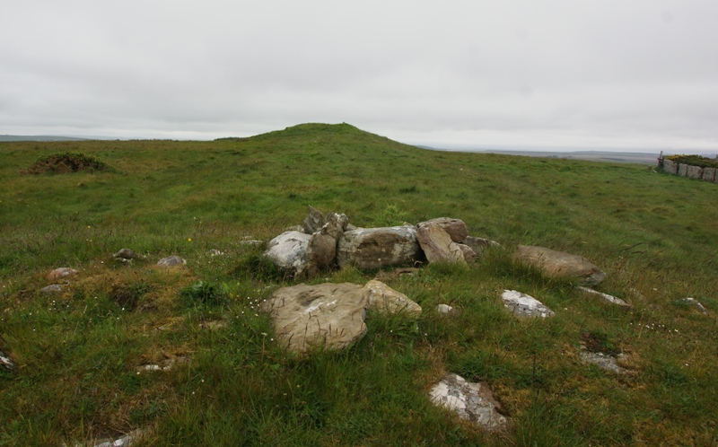 Cnoc Freiceadain Long Cairns, Shebster, Highland, Scotland - southern cairn